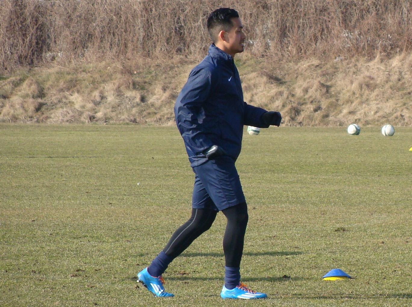 Takuya Murayama training in Pogon Szczecin